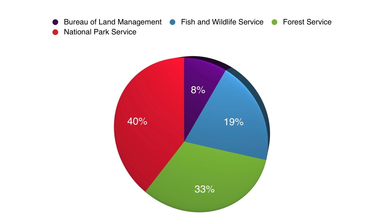 Acres of Wilderness managed by different U.S. federal government agencies